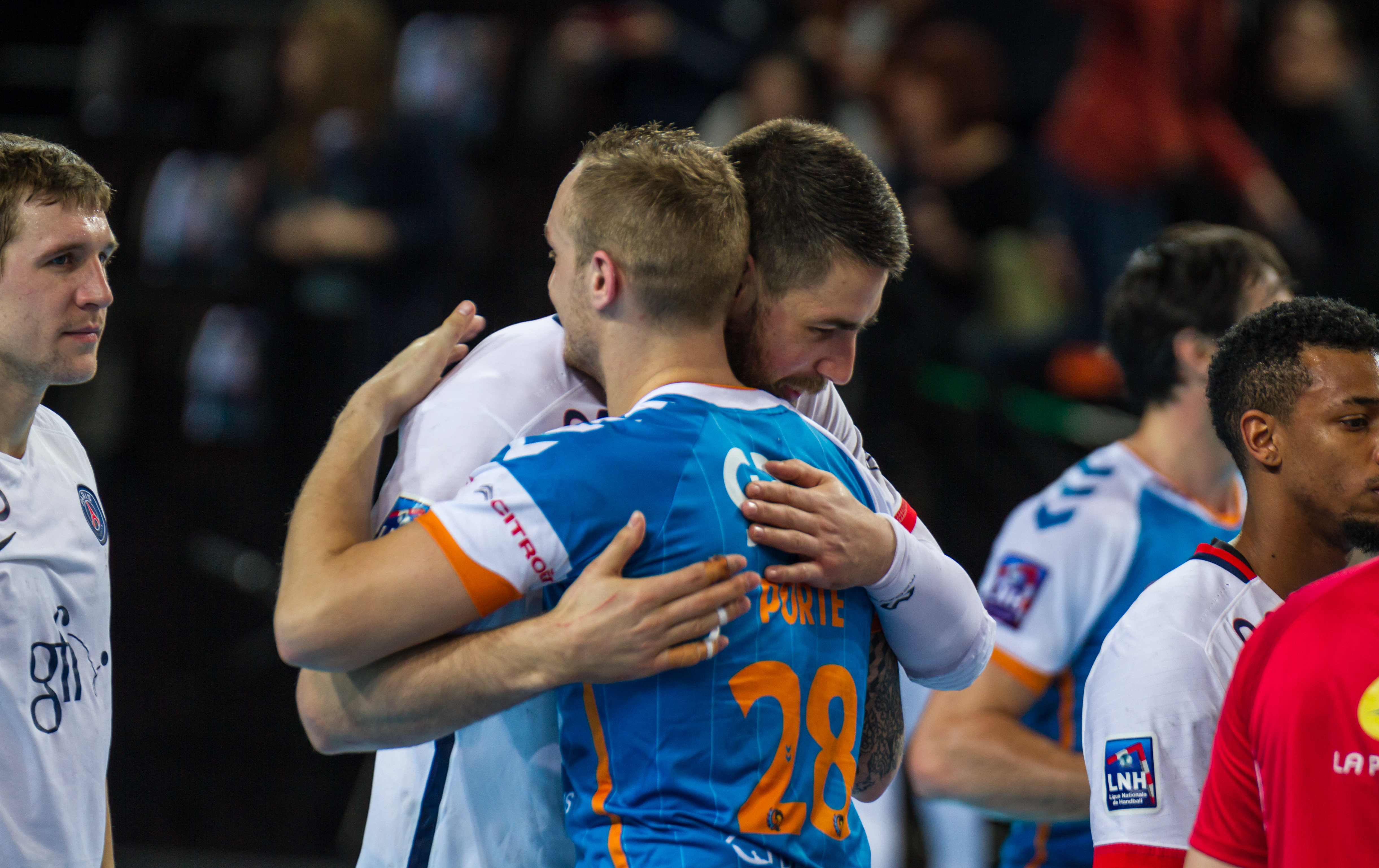 Semi-finale of the Handball League Cup, between Fenix Toulouse and PSG: Valentin Porte and Nikola Karabatic hug at the end of the game.